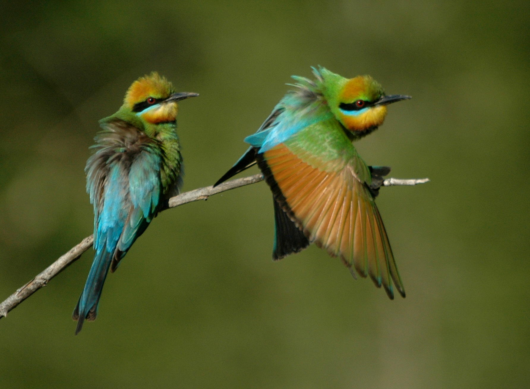 Rainbow Bee-eater (Merops ornatus) Dayboro, SE Queensland, Australia